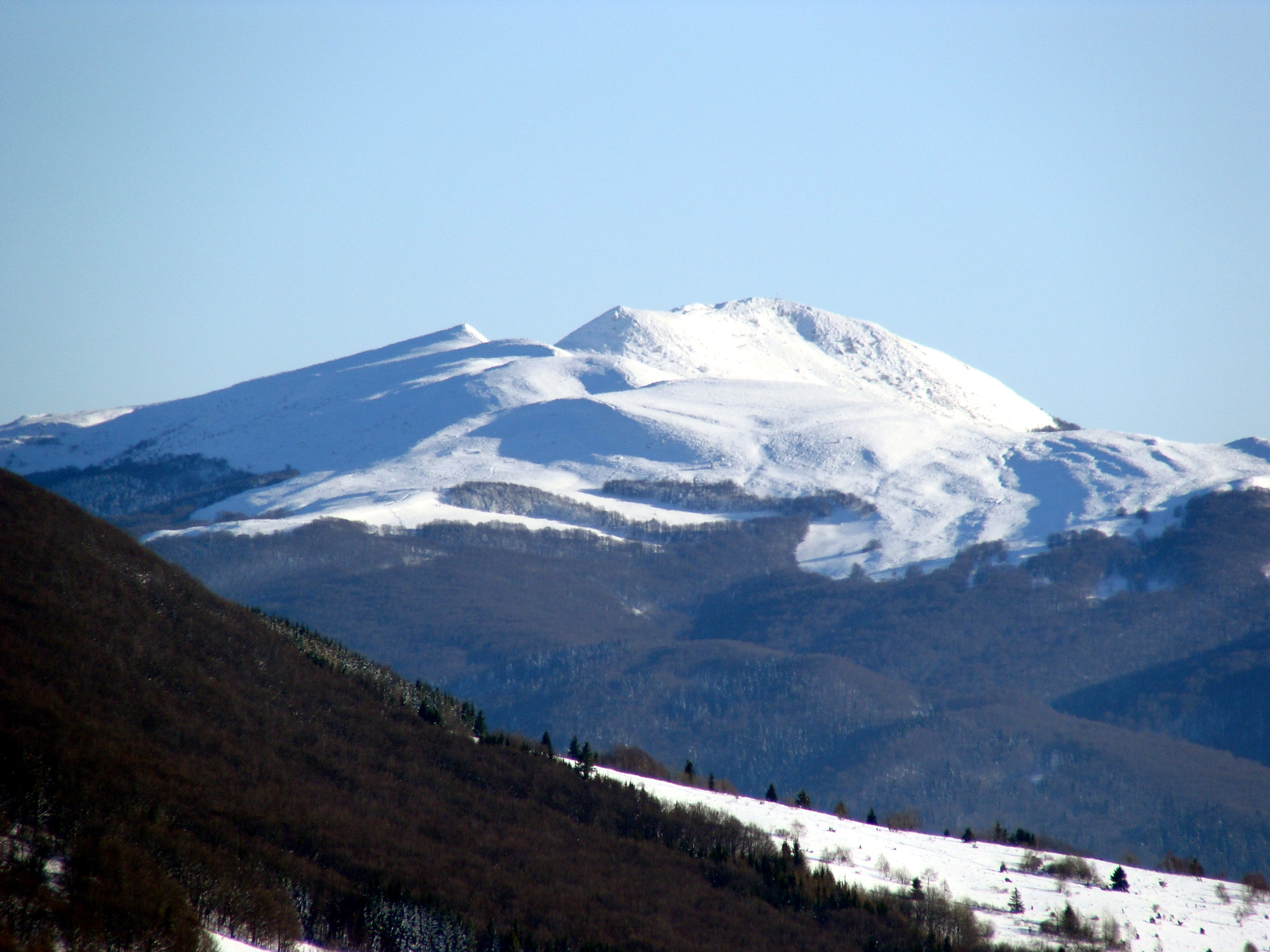 A view of the western face of Tarnica, winter 2008